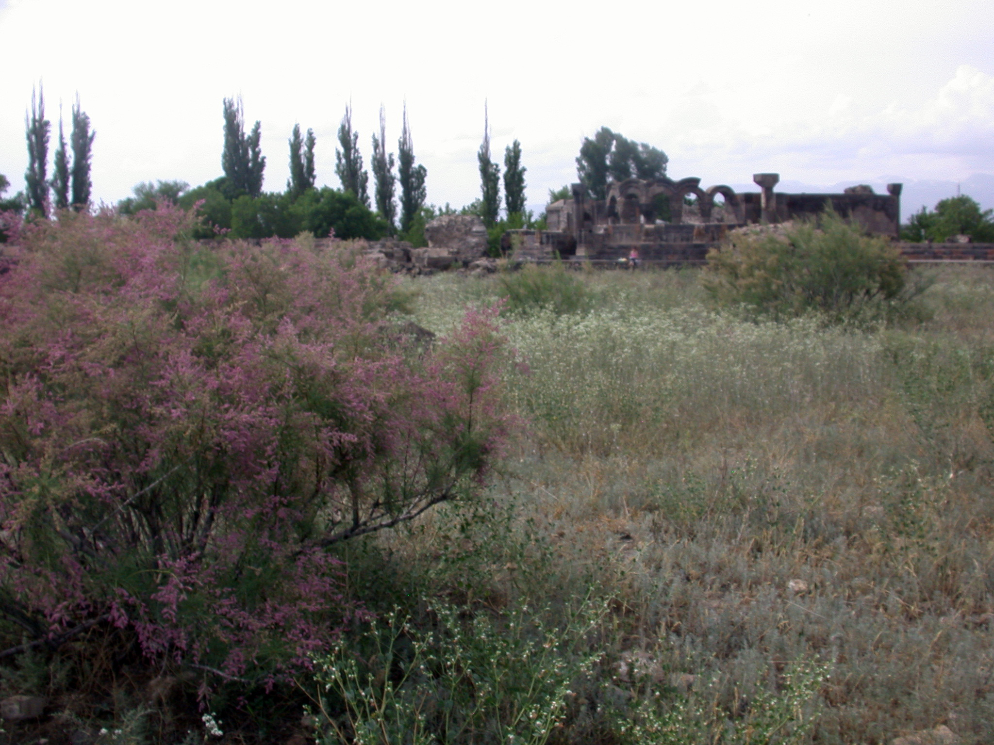 Psammophytes near Zvartnots Cathedral